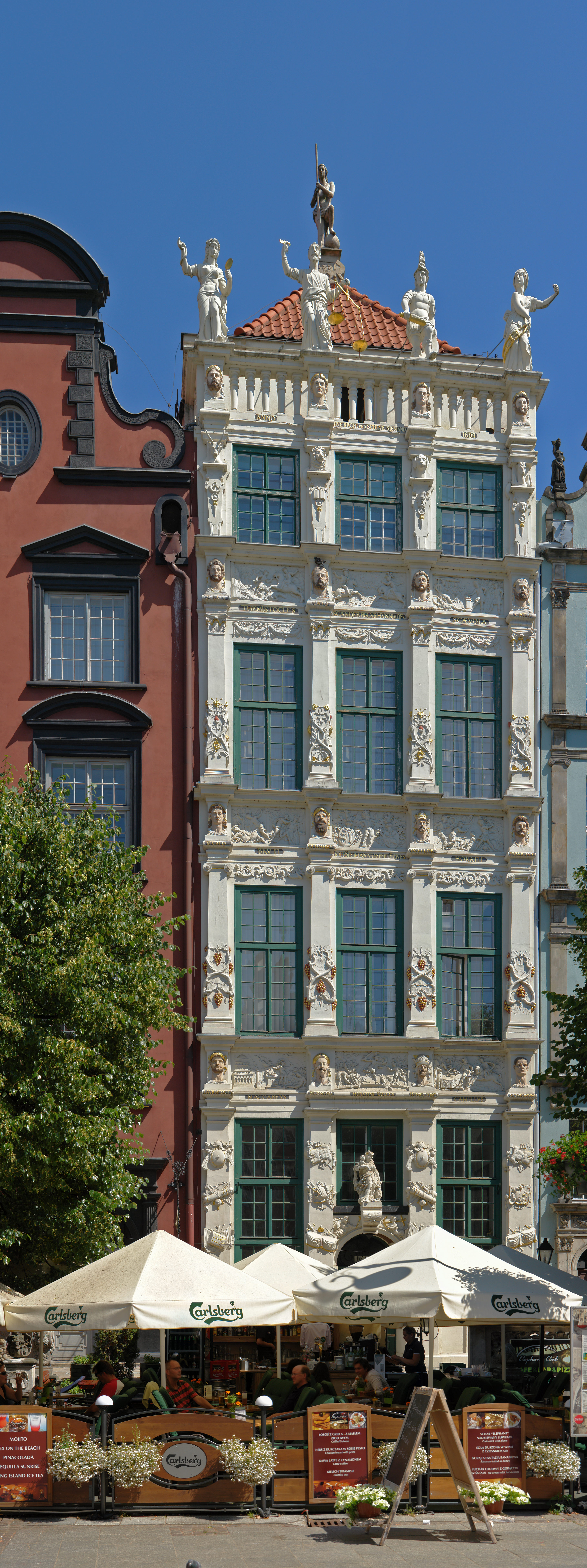 Golden House Gdansk